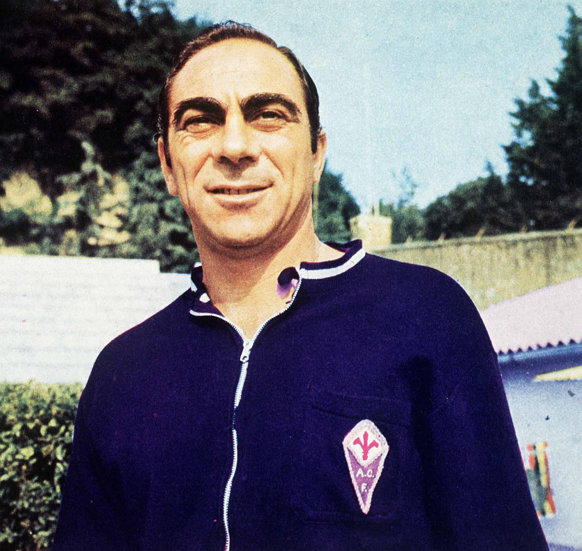 Italian-Argentines football coach Bruno Pesaola with A.C. Fiorentina between late 1960s and early 1970s.